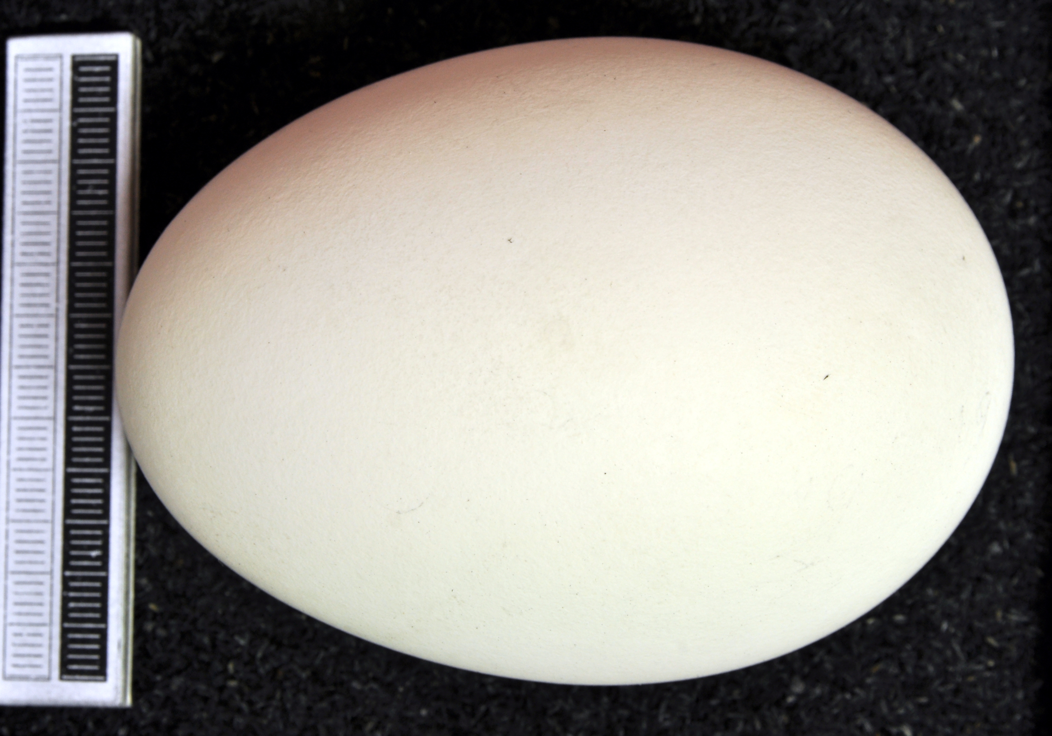 Swan goose Anser cygnoides , egg, Coll. Museum Wiesbaden